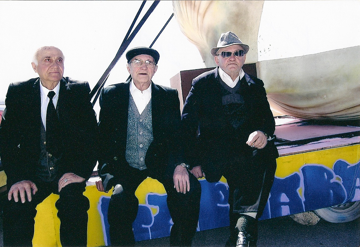 Vani Trako